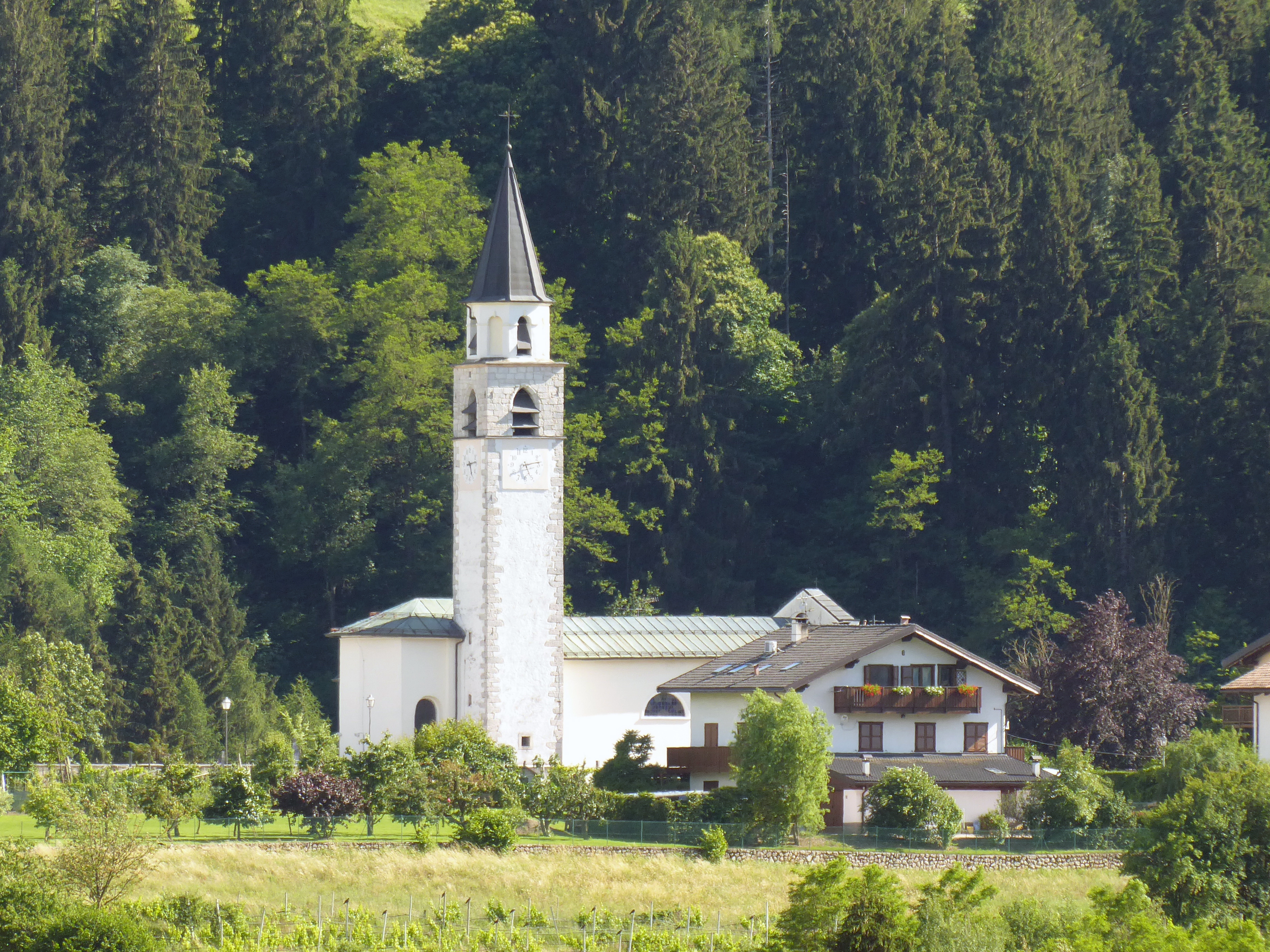 Vattaro (Altopiano della Vigolana, Trentino, Italy) - Saint Martin church as seen from Bosentino